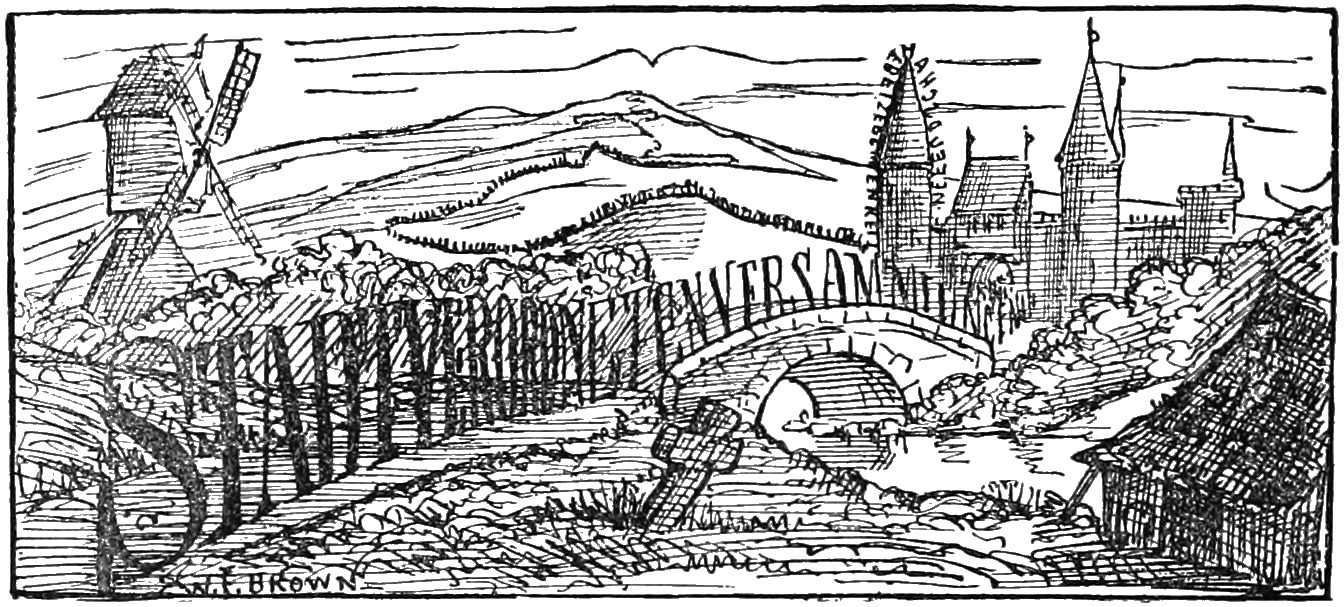 Image from a scanned copy of a book "A Tramp Abroad" (1880) by Mark Twain. Image has been cropped and the sepia tones removed. The displayed German word "Stadtverordnetenversammlungen" means "city councillor meetings".